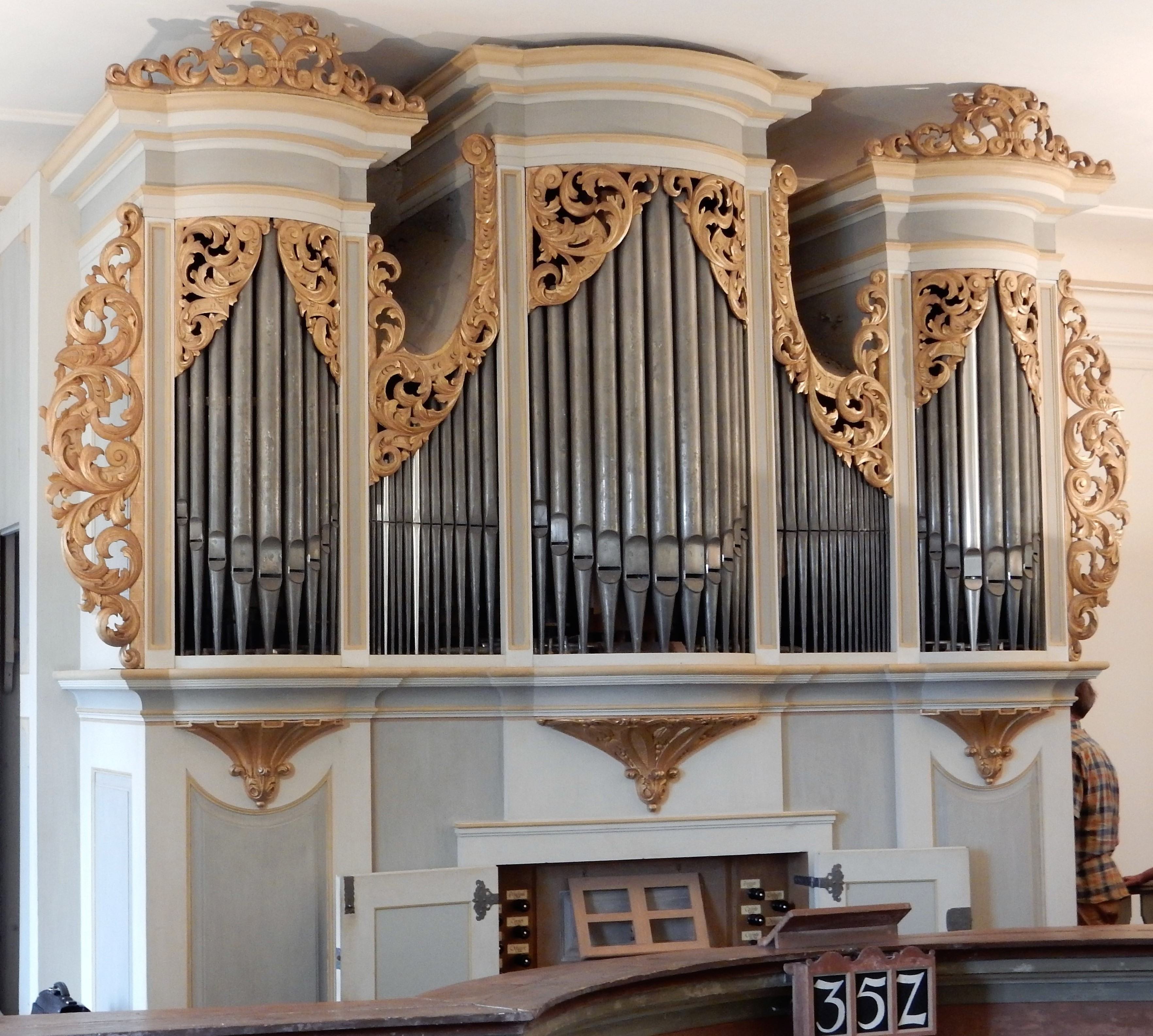 Organ by Gottfried Silbermann at Lebusa, Brandenburg, Germany